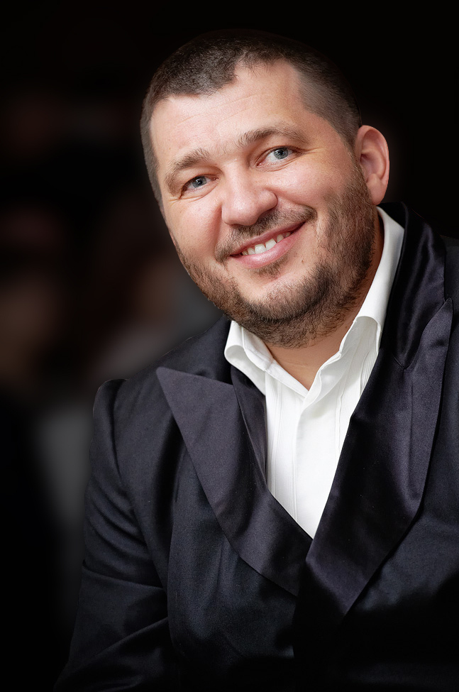 Oleksandr Granovsky